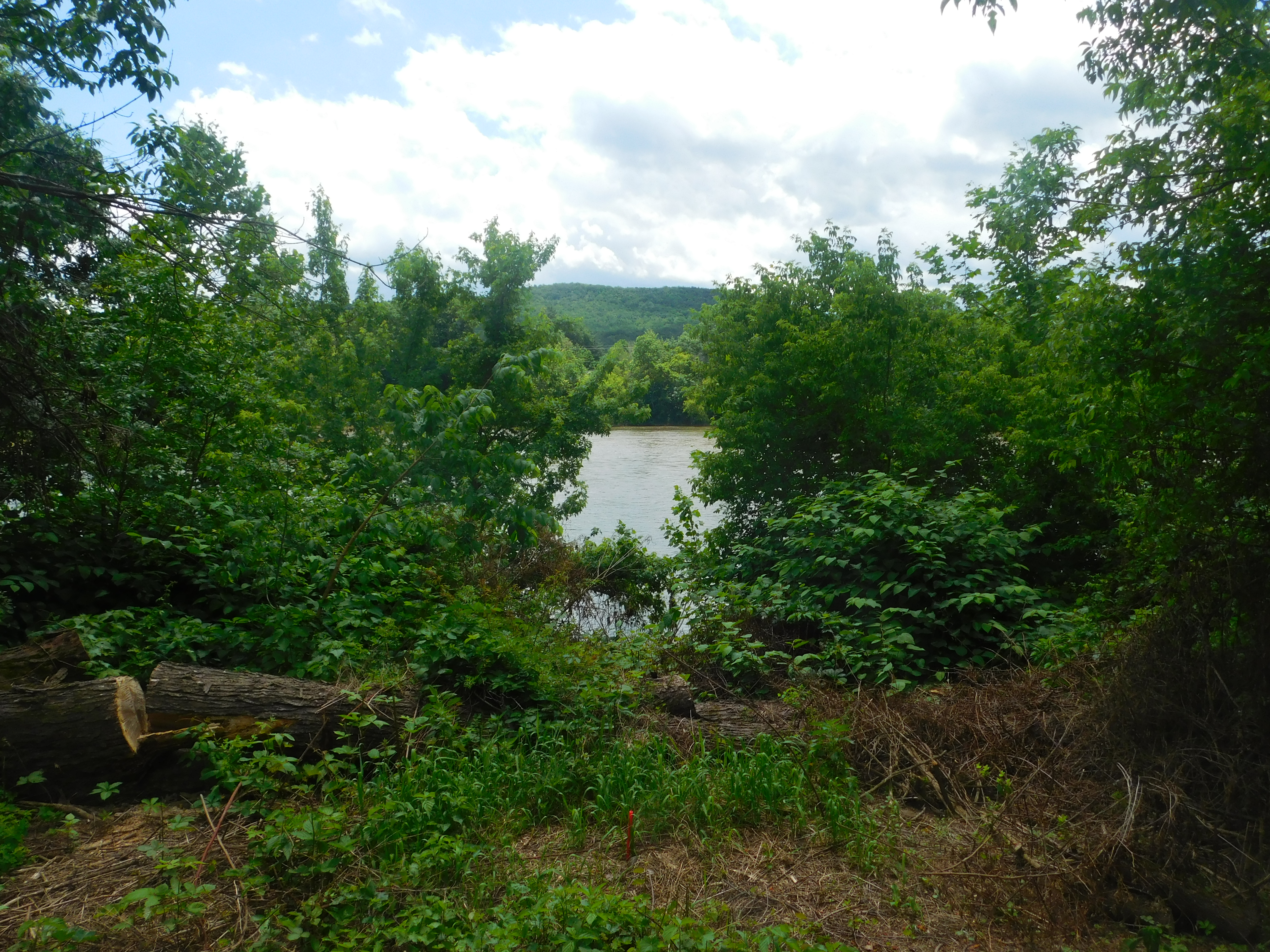 The site of the Smithboro-Nichols Toll Bridge on former NY 282 in Smithboro, New York.